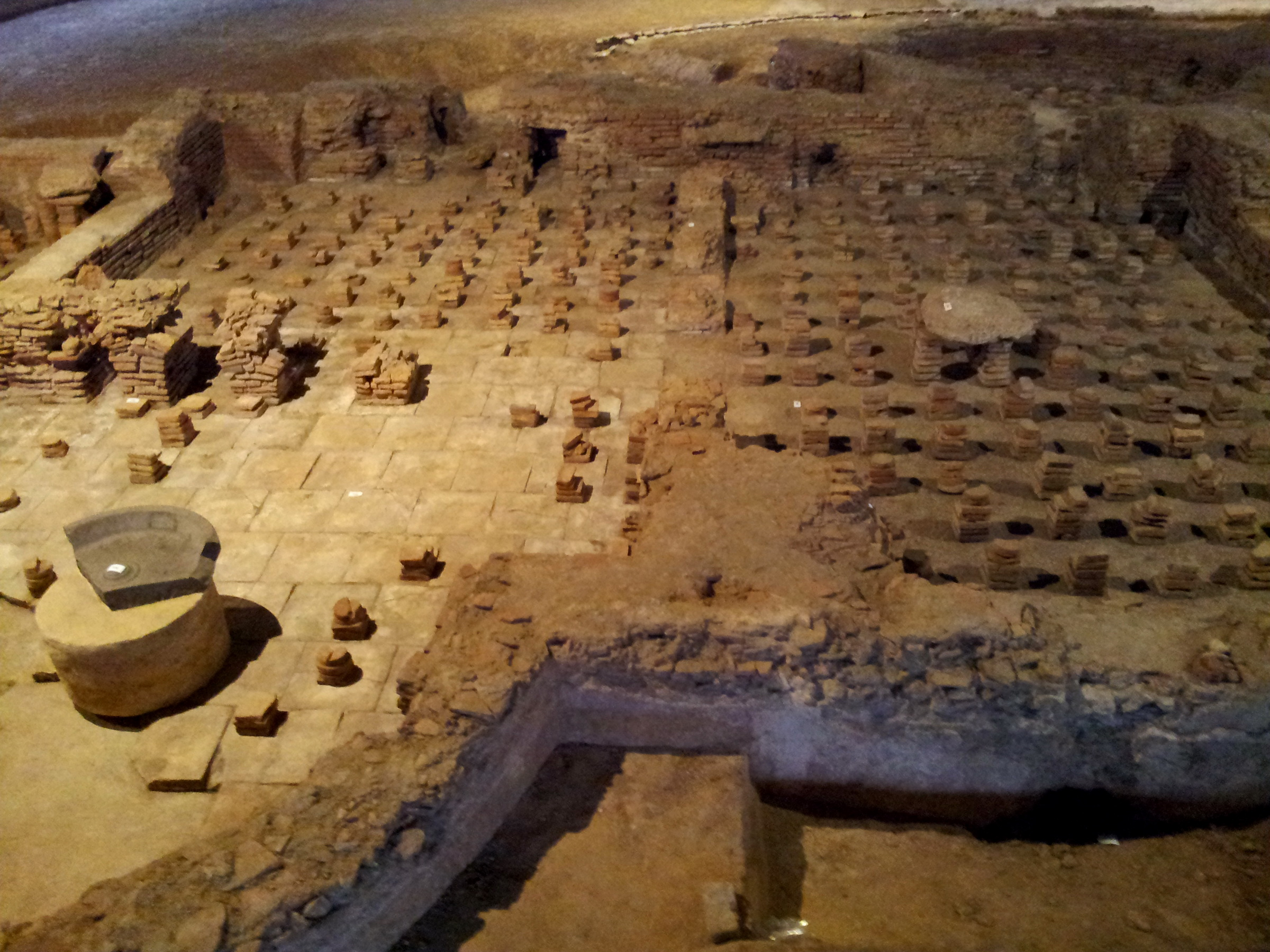 View of the excavations of the Roman baths in Heerlen, the Netherlands. The remains are preserved inside the Thermenmuseum.